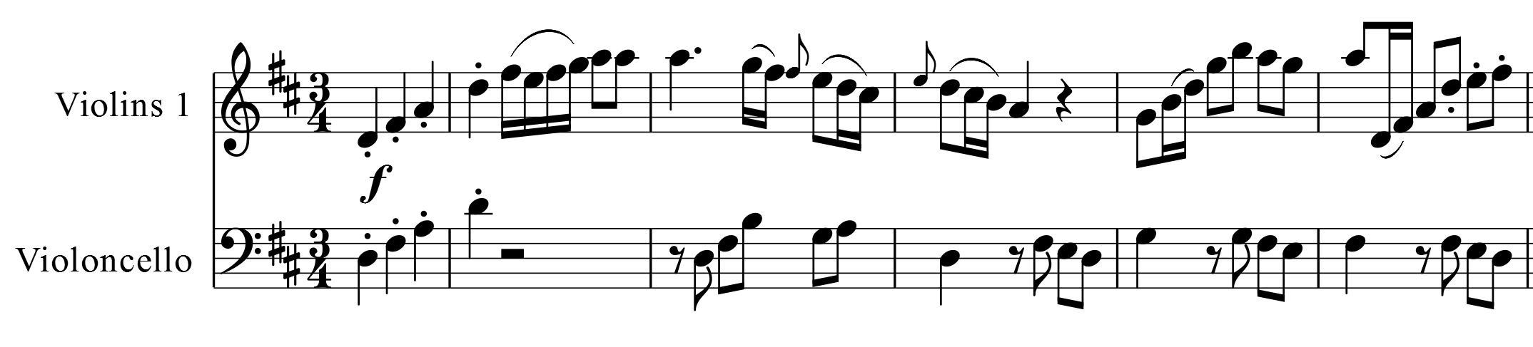 Joseph Haydn, Symphony No. 19, first movement, bar 1-6, first violin